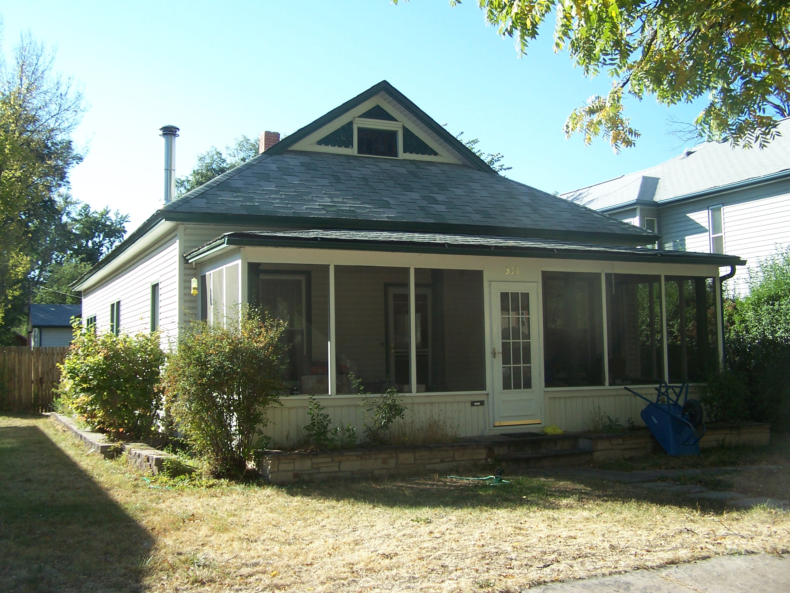 Mark D. Miller house at 315 Whedbee in Fort Collins, Colorado